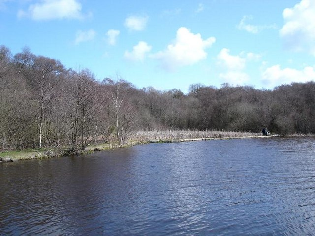 Llyn Helyg Near to the busy A55, Llyn Helyg is owned by the Holywell Fishing club